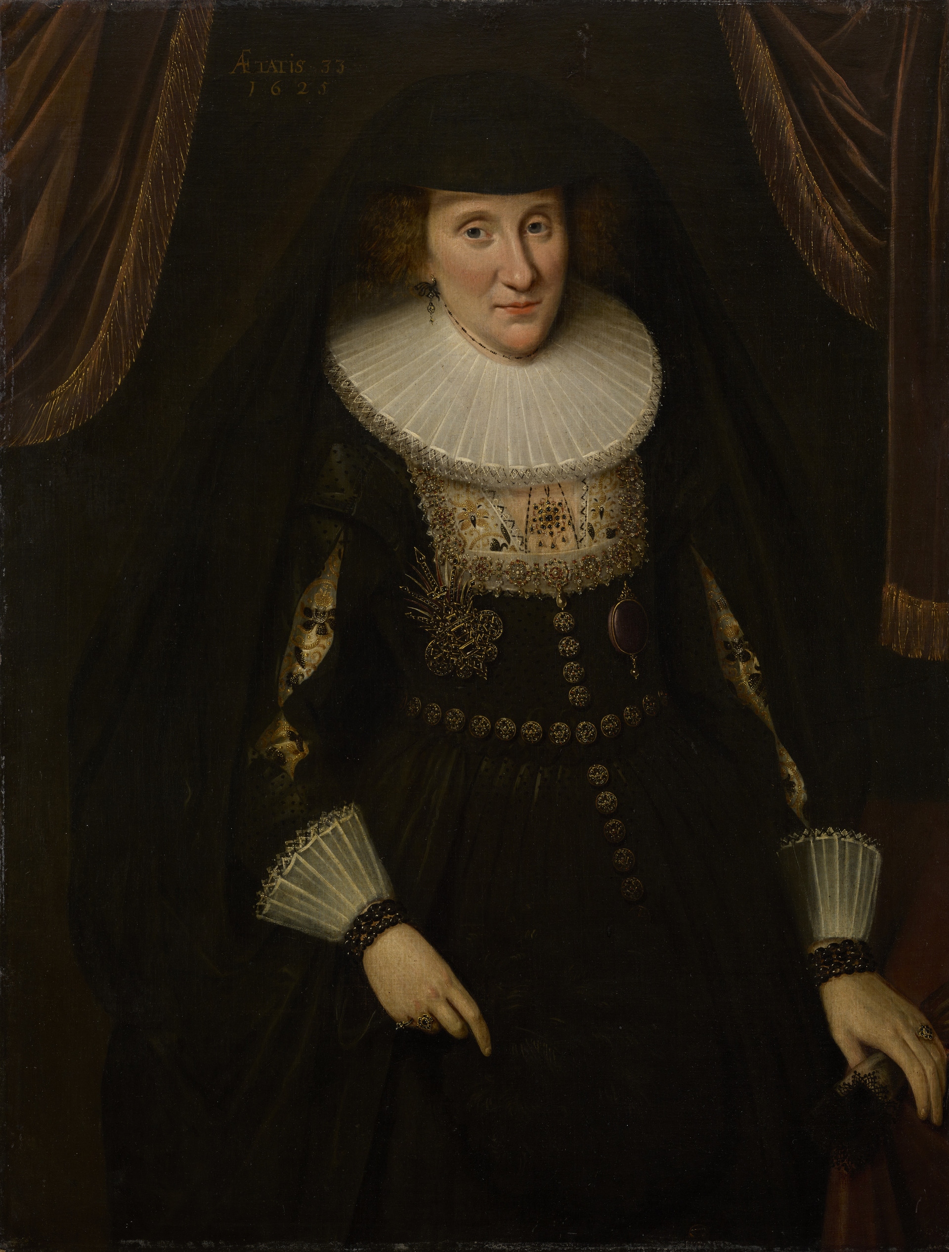 Title:Lady Anne Hay, Countess of Winton, about 1592 - 1625 / 1628. Wife of the 3rd Earl of Winton Accession number:PG 2173 Artist:Adam de ColoneScottish Depicted:Lady Anne Hay Gallery:Scottish National Portrait Gallery(On Display) Object type:Painting Materials: Oil on canvas Date created:Dated 1625 Measurements:109.50 x 83.70 cm (framed: 127.30 x 101.40 x 6.50 cm) Credit line:Bequeathed by Sir Theophilus Biddulph 1948; received 1969